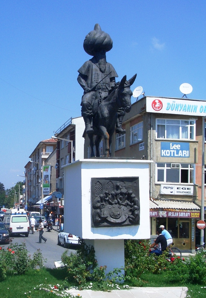 Nasreddin Hoca Monument in Akşehir Akşehir